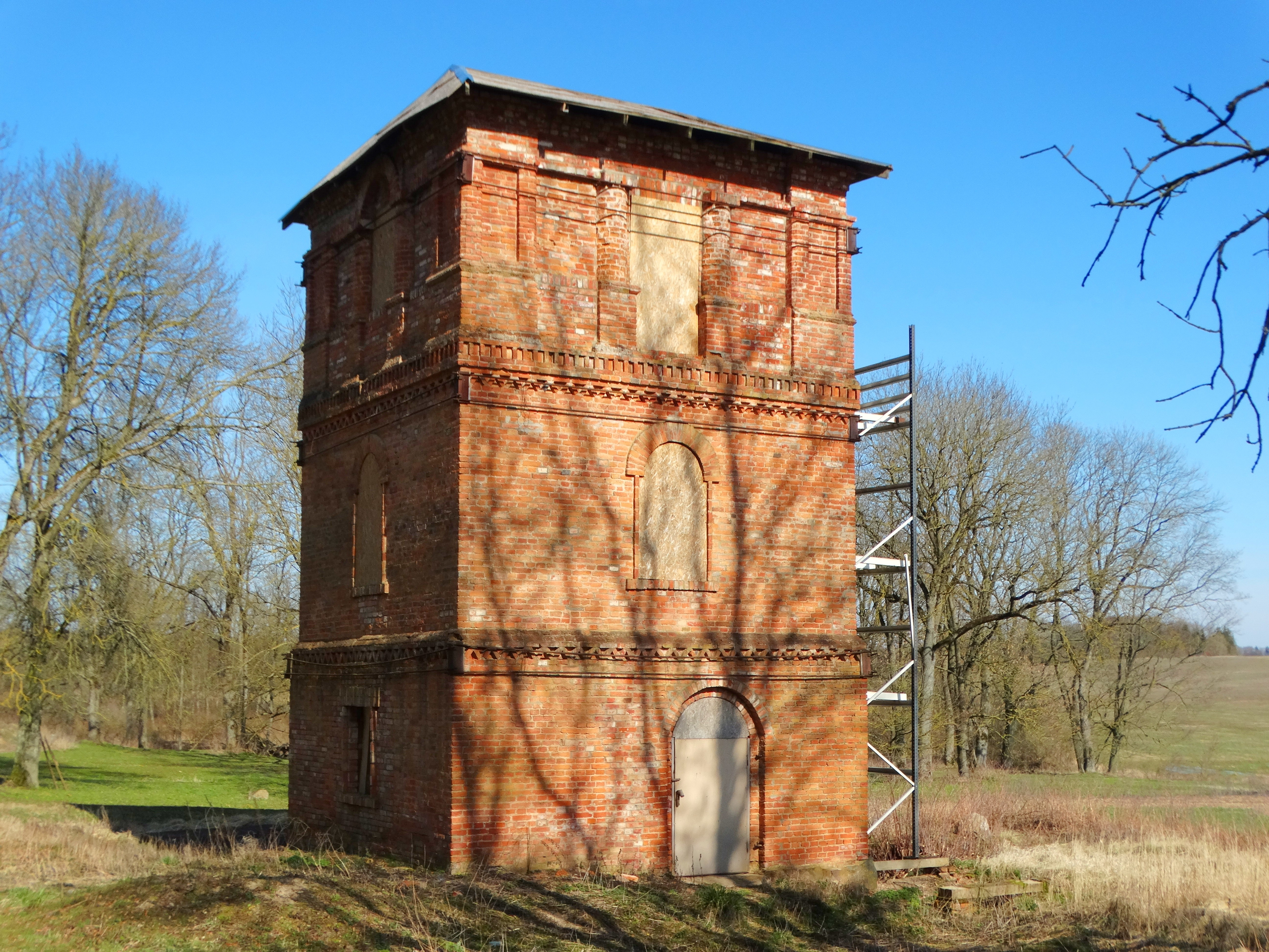 Former manor in Labūnava, 2nd tower, Kėdainiai District, Lithuania